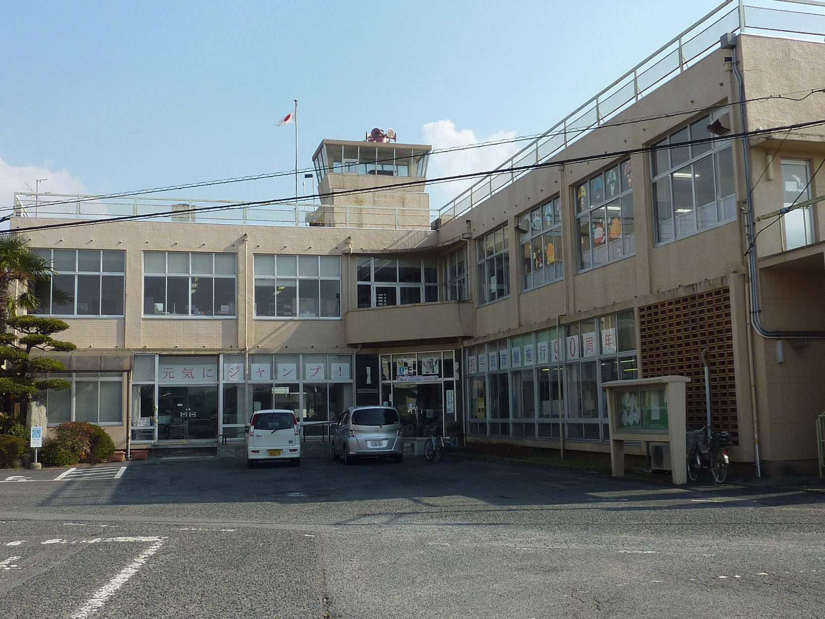 Ube City Office Kusunoki Synthesis Branch (Former Kusunoki Town Office - Yamaguchi Prefecture, Japan)